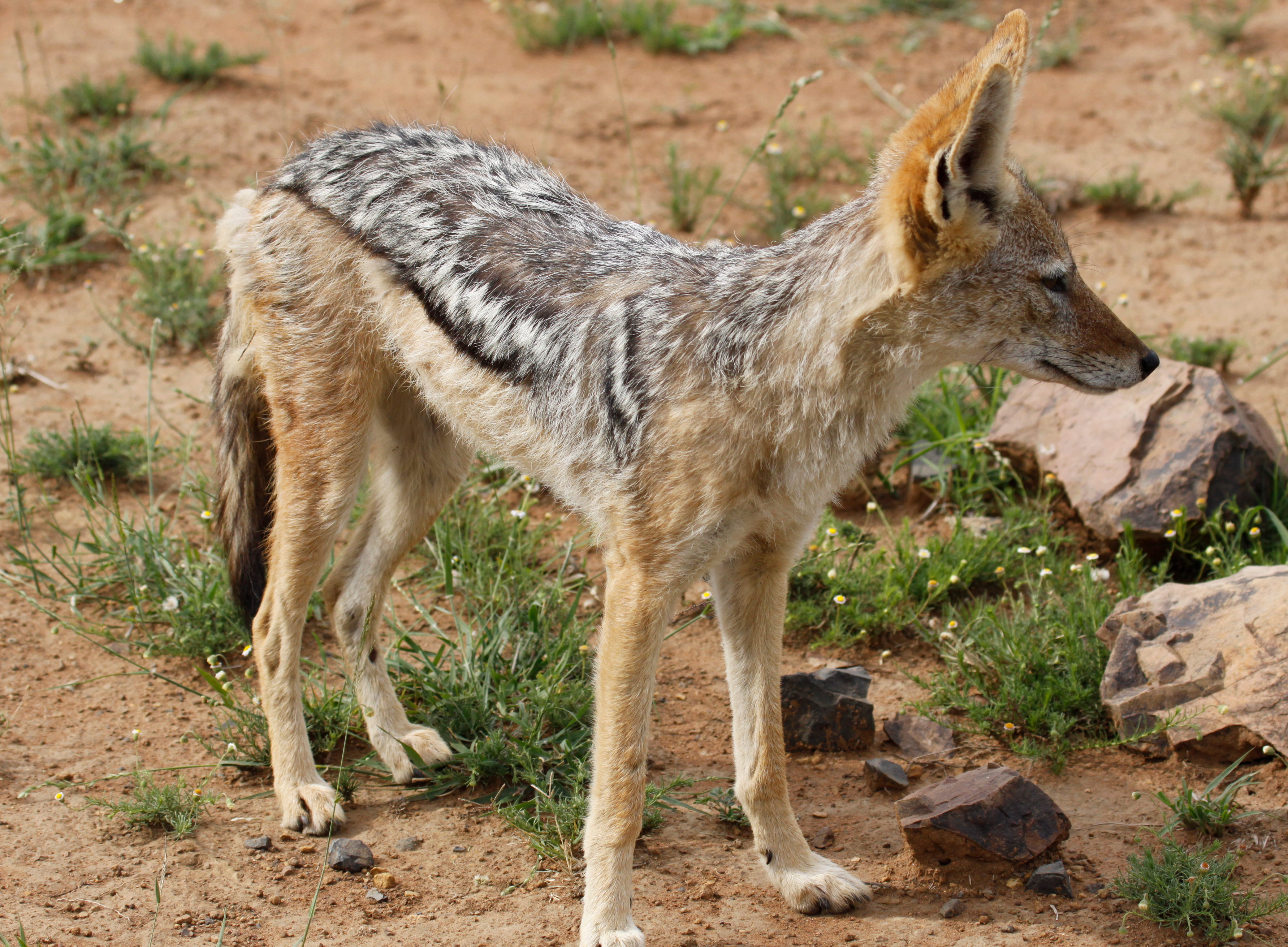 Black-backed jackal, Canis mesomelas, at Pilanesberg National Park, South Afric